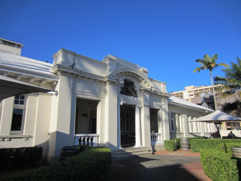 Cairns Court House, 2015